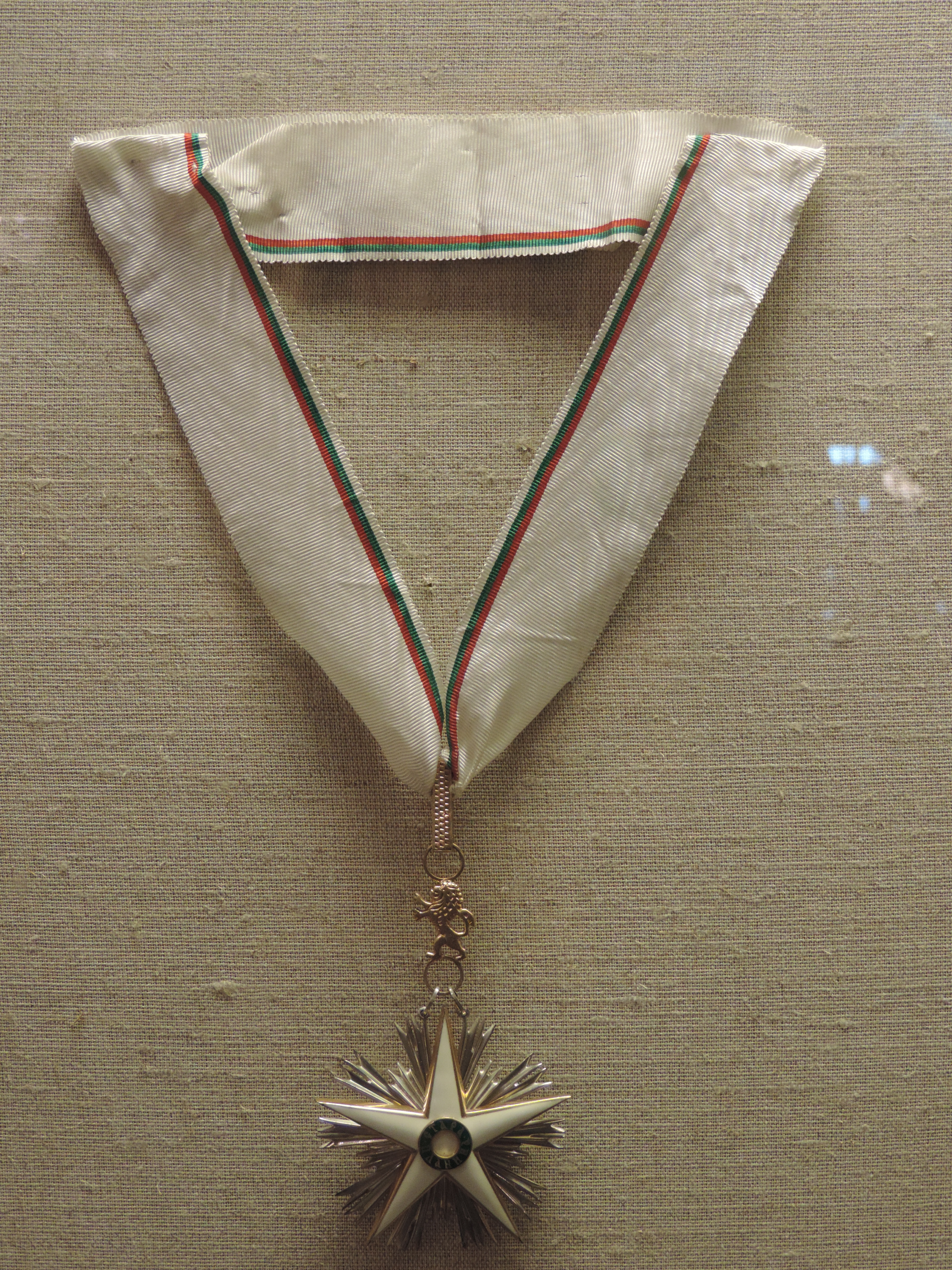 Order Stara planina I class, awarded posthumously to Dimitar Peshev. Exhibit of the National History Museum of Bulgaria